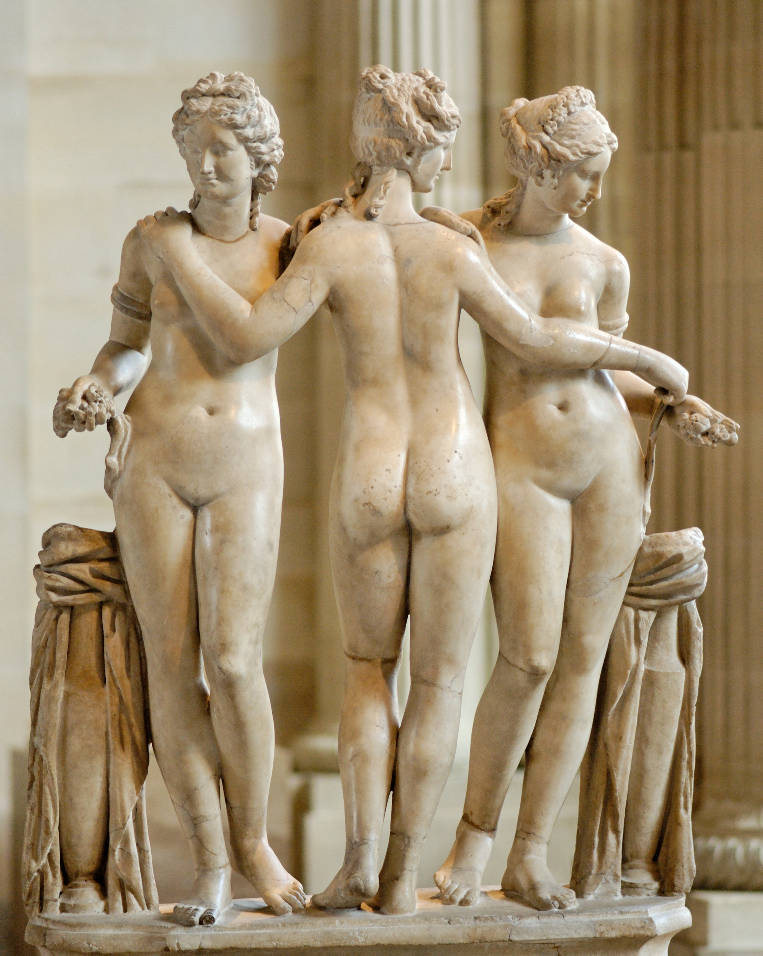 The three Graces. Roman copy of the Imperial Era (2nd century AD?) after a Hellenistic original. Restored for a large part in 1609 by Nicolas Cordier (1565-1612) for Cardinal Borghese.